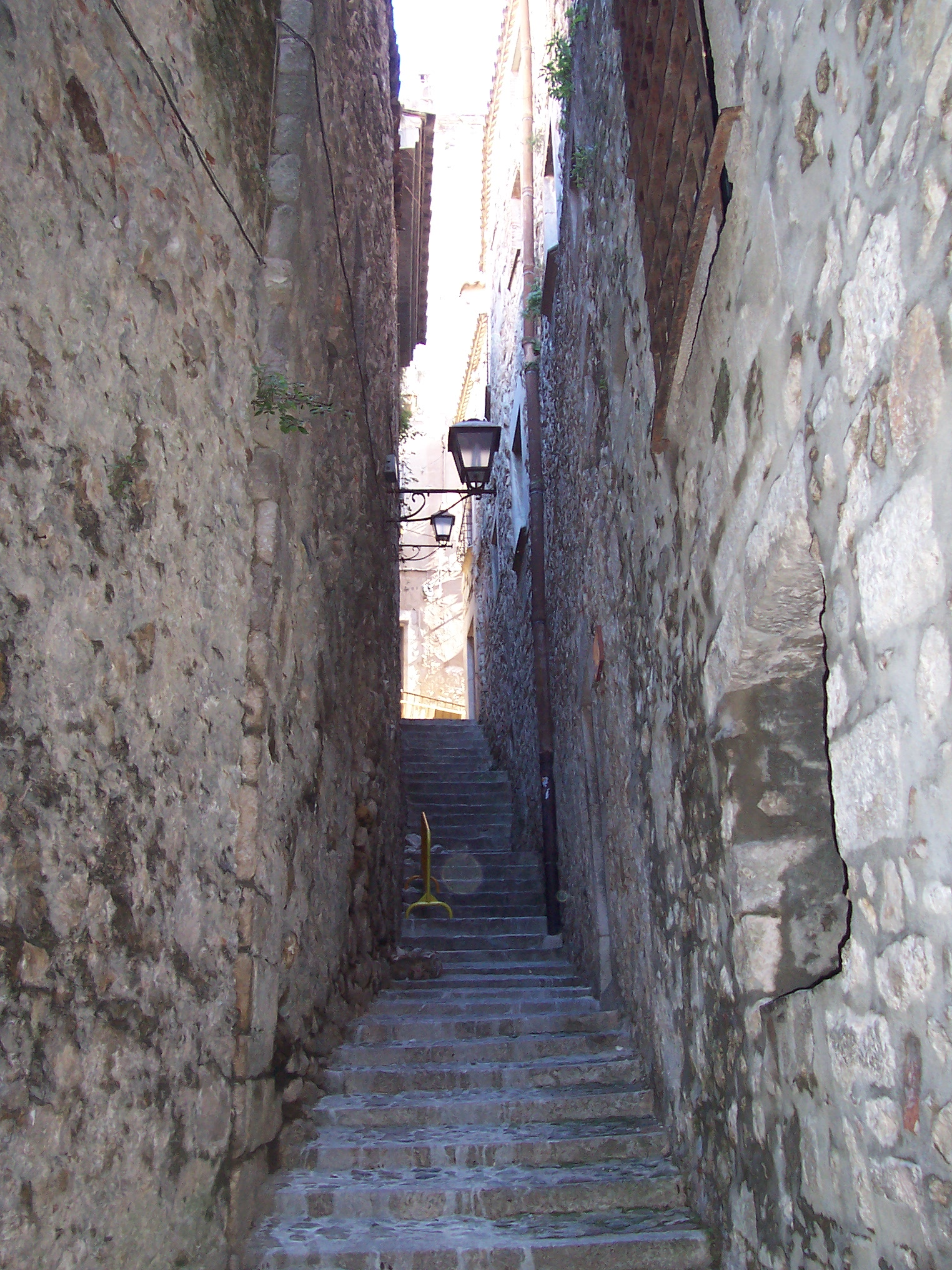 Street of the Jewry, Girona, Catalonia.